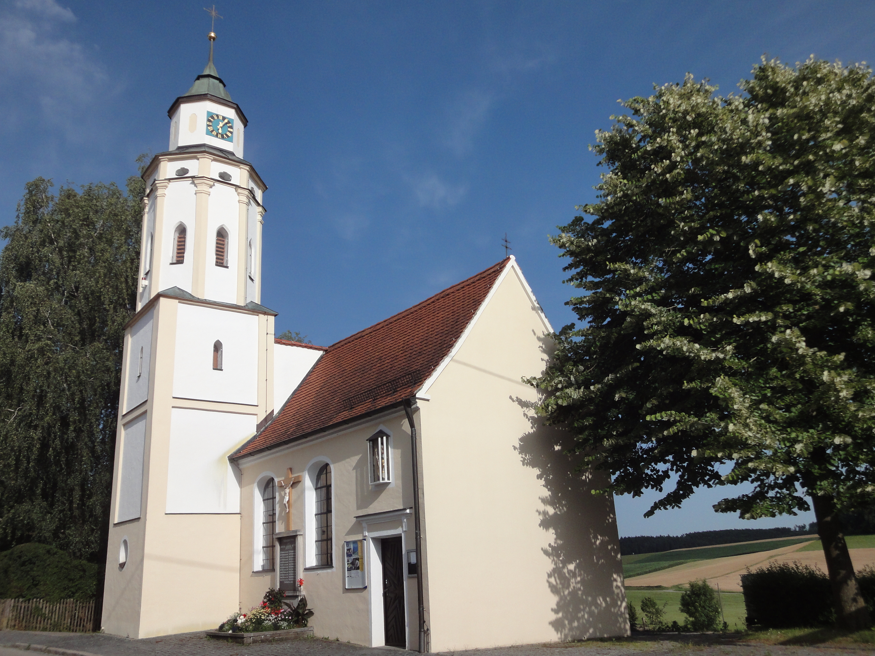 church in Gersthofen-Rettenbergen